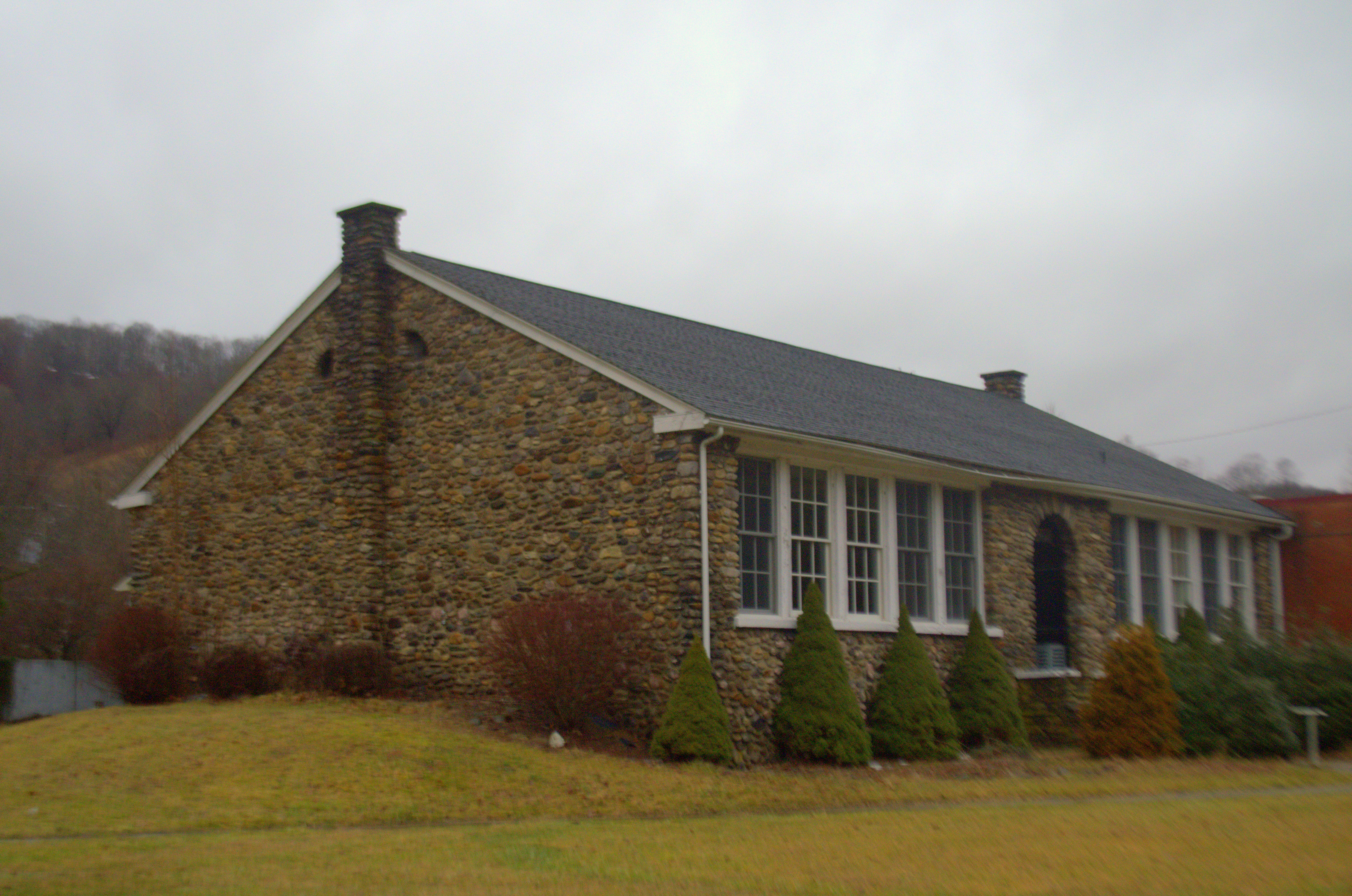 A Picture of the Old Mount Rogers School in Whitetop, VA in Smyth County. The Old Building is attached to the new school that has now been closed.